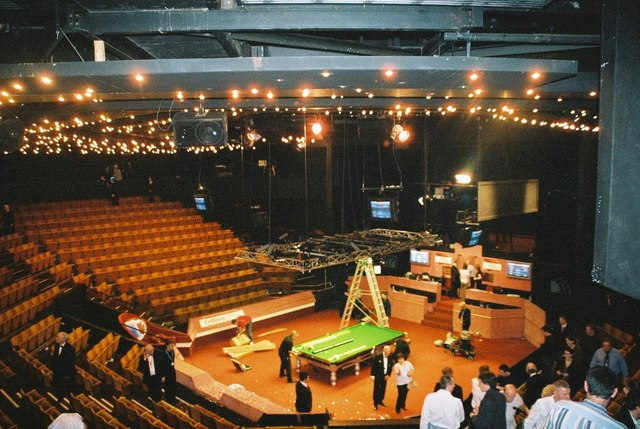 After the final The arena hasn't yet cleared and already the table-fitters are dismantling the table. One of Sheffield's most famous sporting events, this was the 2005 World Snooker Championship. To prove that statistics can tell whatever story you like, this was Matthew Stevens's second final, and my twelfth!